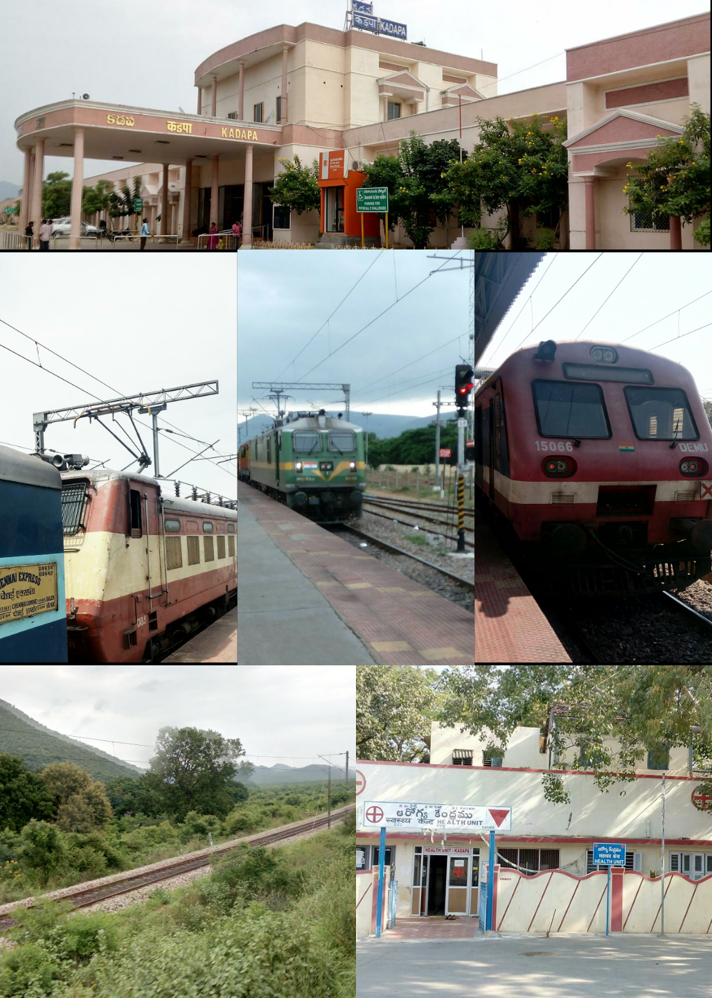 Montage of HX RS